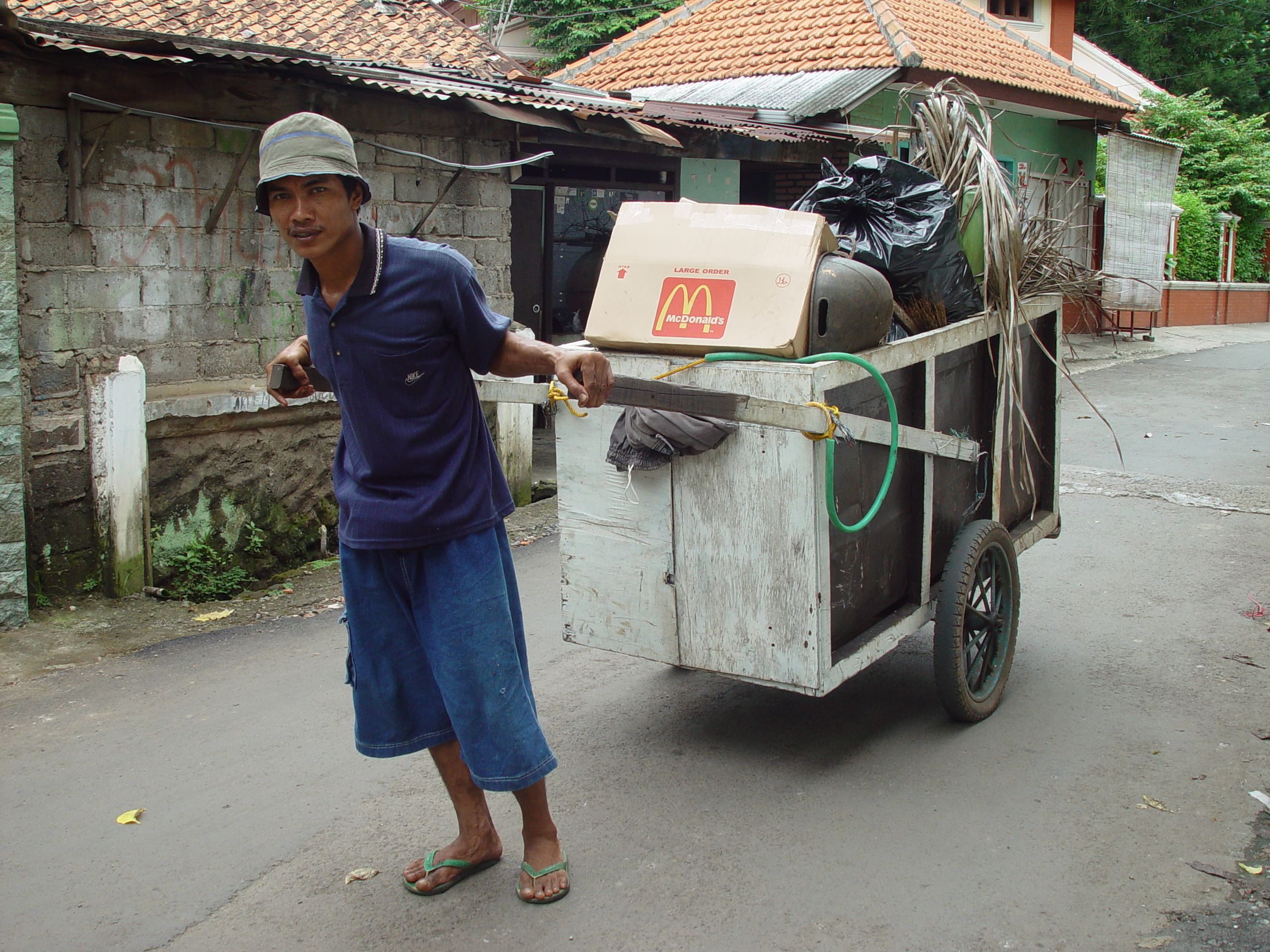 Hand cart filled with refuse, including a cardboard box with the McDonald's logo, in Jakarta, Indonesia.